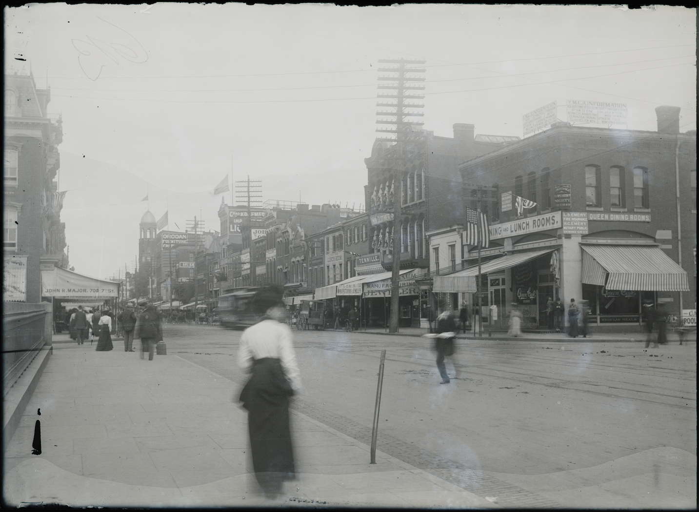 circa 1900-1905, 7th Street NW, east side, looking north from G Street, Washington, D.C. Included in photograph are the Tennille clothing store, the Queen Cafe and L. Baum Manufacturing Jeweler. D.C. Street Survey Collection, Library of Congress; glass negative; plate 13 x 18 cm